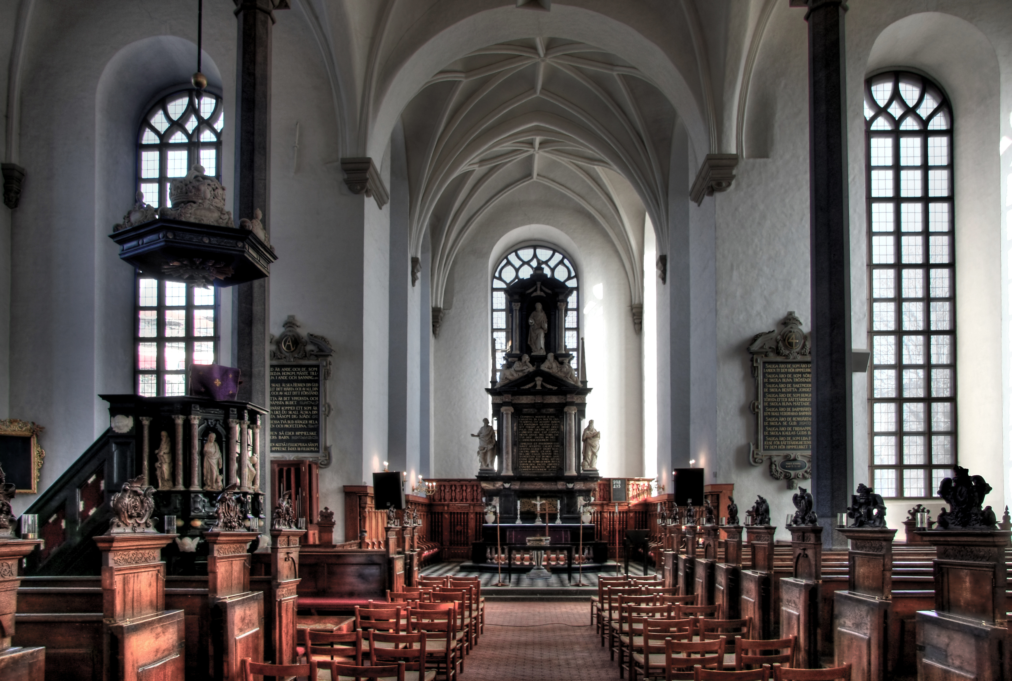 Interior of Heliga Trefaldighets kyrka (Holy Trinity Church) in Kristianstad, Sweden.